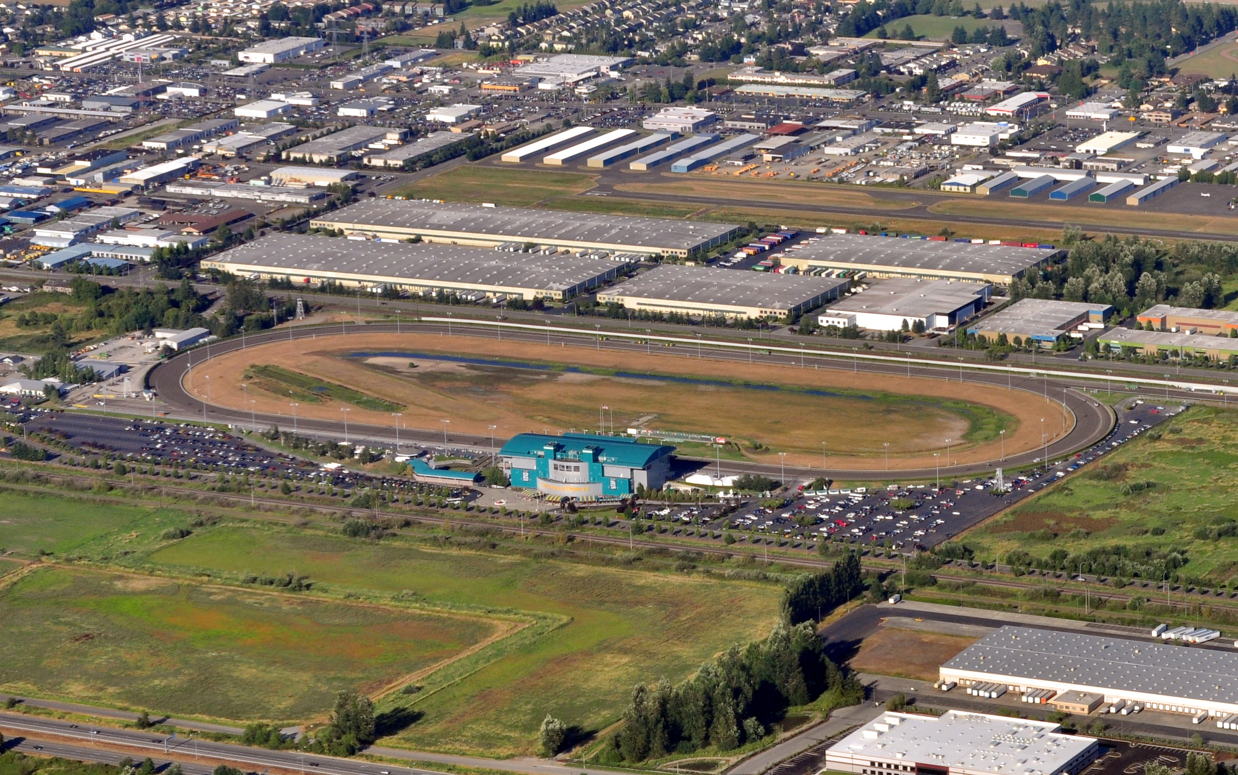 Aerial view of Emerald Downs racetrack (horse racing), Auburn, Washington, U.S. from west by southwest.